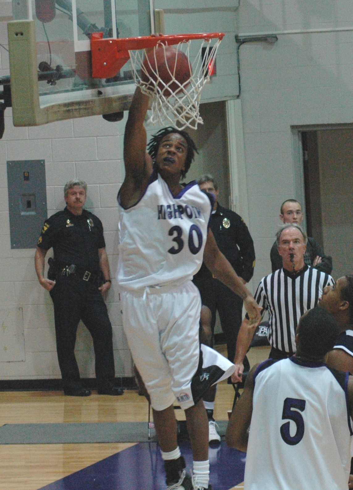 High Point University student photo of Arizona Reid